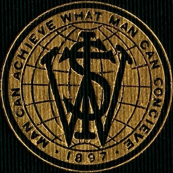 Weltmer Institute Logo Emblem old Gold on Black. Taken from the book of Earnest Weltmer, son for Prof. S.A. Weltmer in his book "Realisation" it is embrosed on the black back cover of the book.